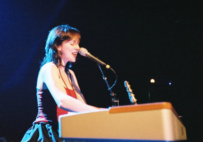 Canadian singer-songwriter Sarah Slean opening for Ron Sexsmith at de Helling, Utrecht, the Netherlands on September 12, 2004.